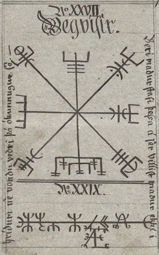 Portion of page 60 of Huld Manuscript ca. 1860 showing two Vegvisir symbols with title and description of use in Icelandic